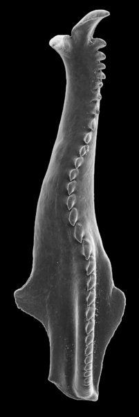 This is a scolecodont (jaw of polychaete worm) of extinct family Ramphoprionidae. Age: Ordovician (ca 450 Million years). Length of the specimen is approximately 1 mm. The specimen is housed at the Institute of Geology at Tallinn University of Technology. Author of the SEM microphotograph: Olle Hints.